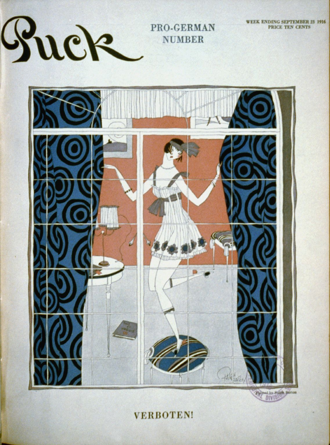 "Verboten!" Flapper balancing on one leg on foot stool in her apartment; cover of "Pro-German Number" issue of Puck magazine, 1916 Sep 23.